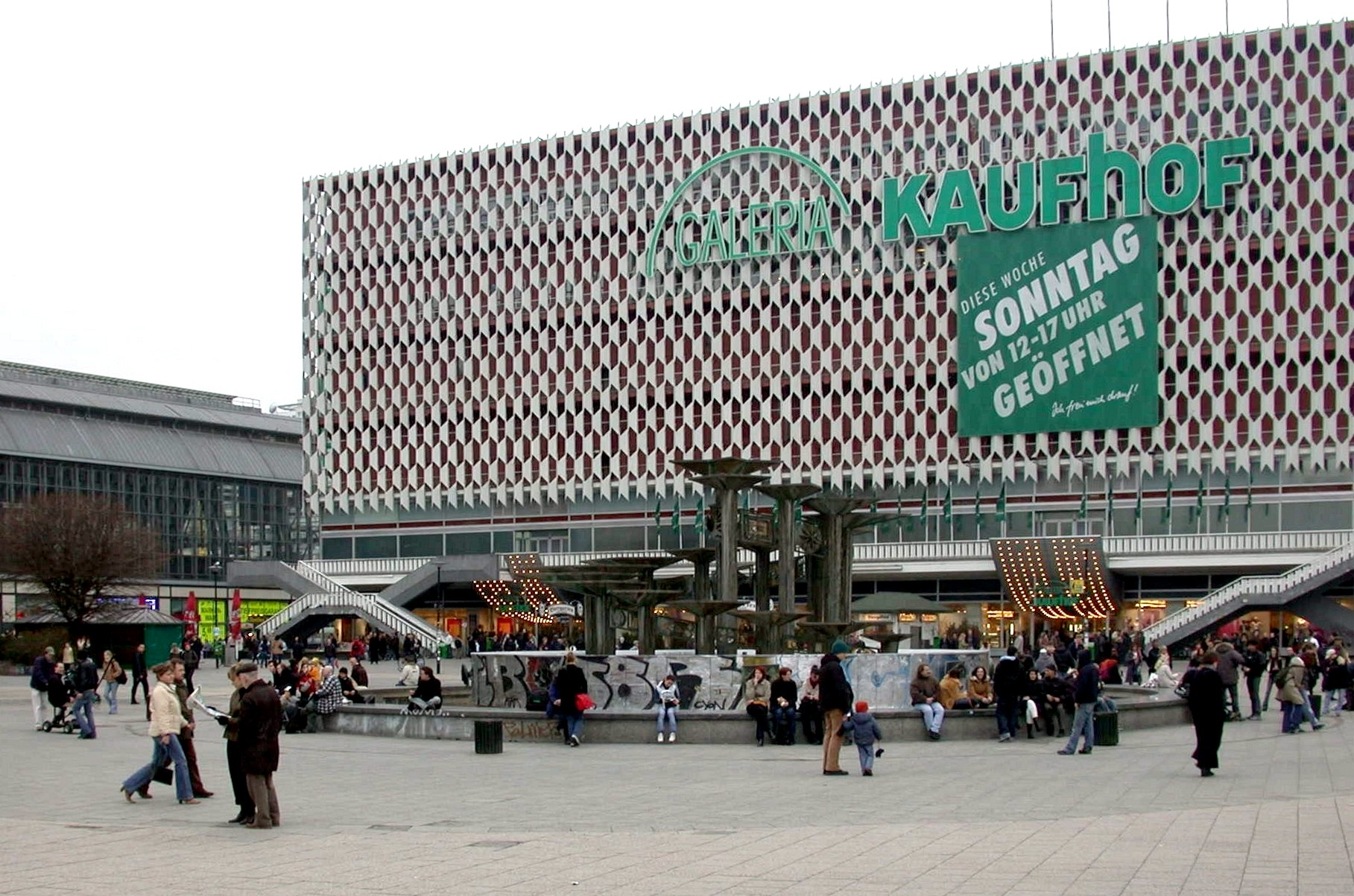 Berlin, Photgraphed by Silke Sohler,own work, Germany